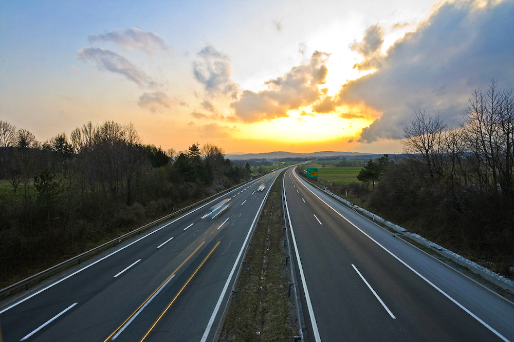 Freeway A1 in Slovenia